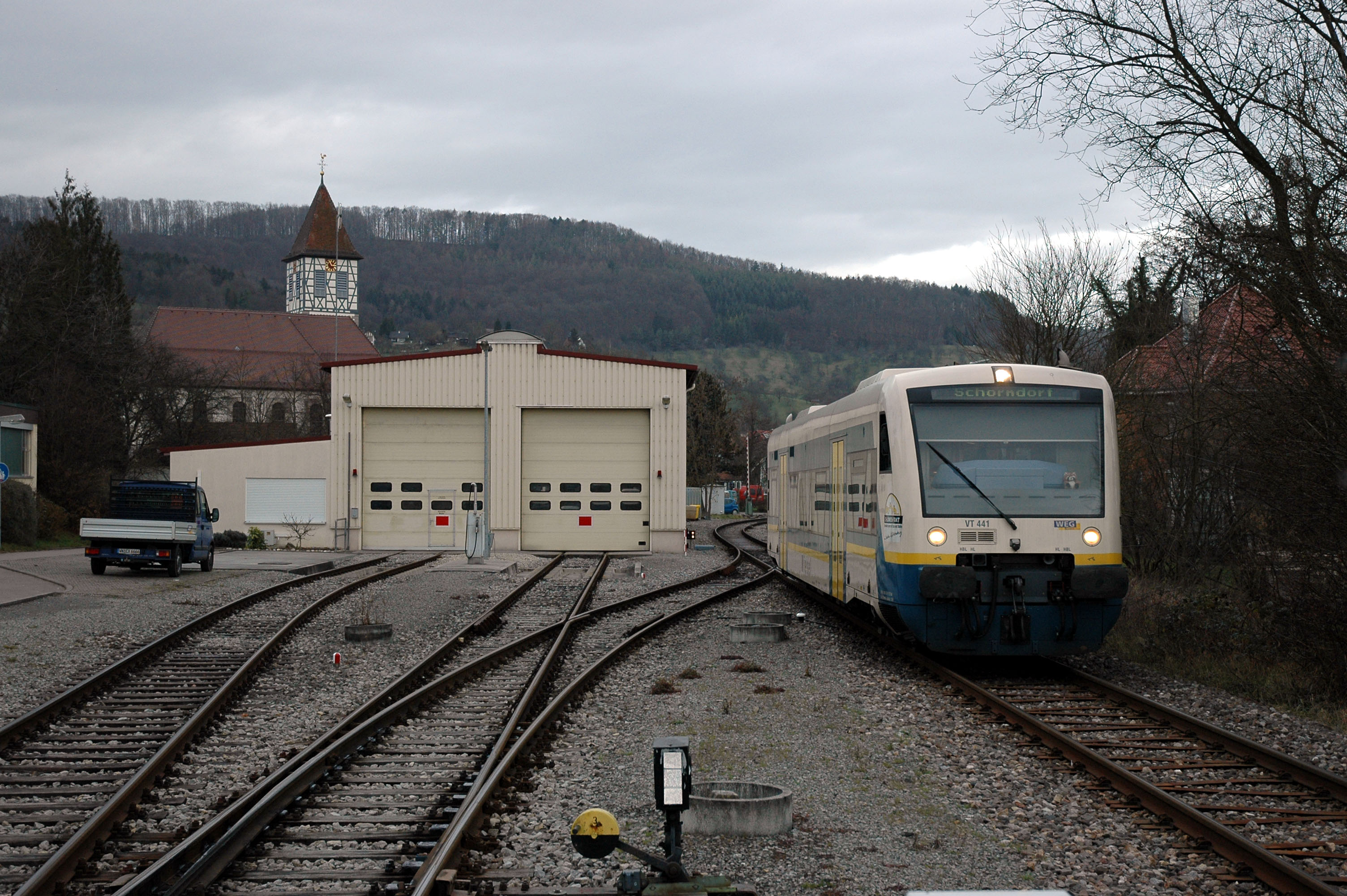 WEG Connex local train of type RegioShuttle on the Wieslauftalbahn in Rudersberg, train number 67.